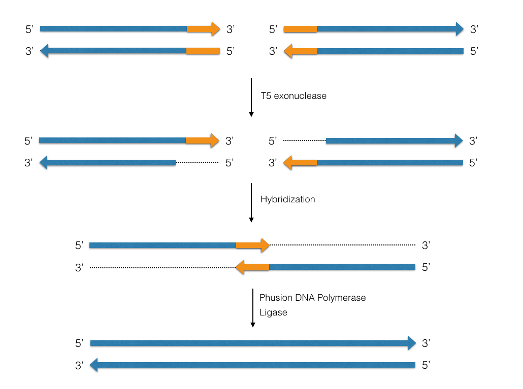 Gibson Assembly Method illustrated by Nivin Nasri